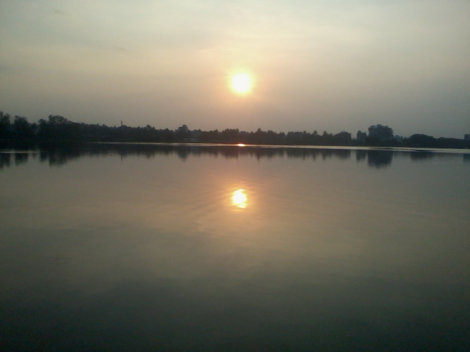 suryast